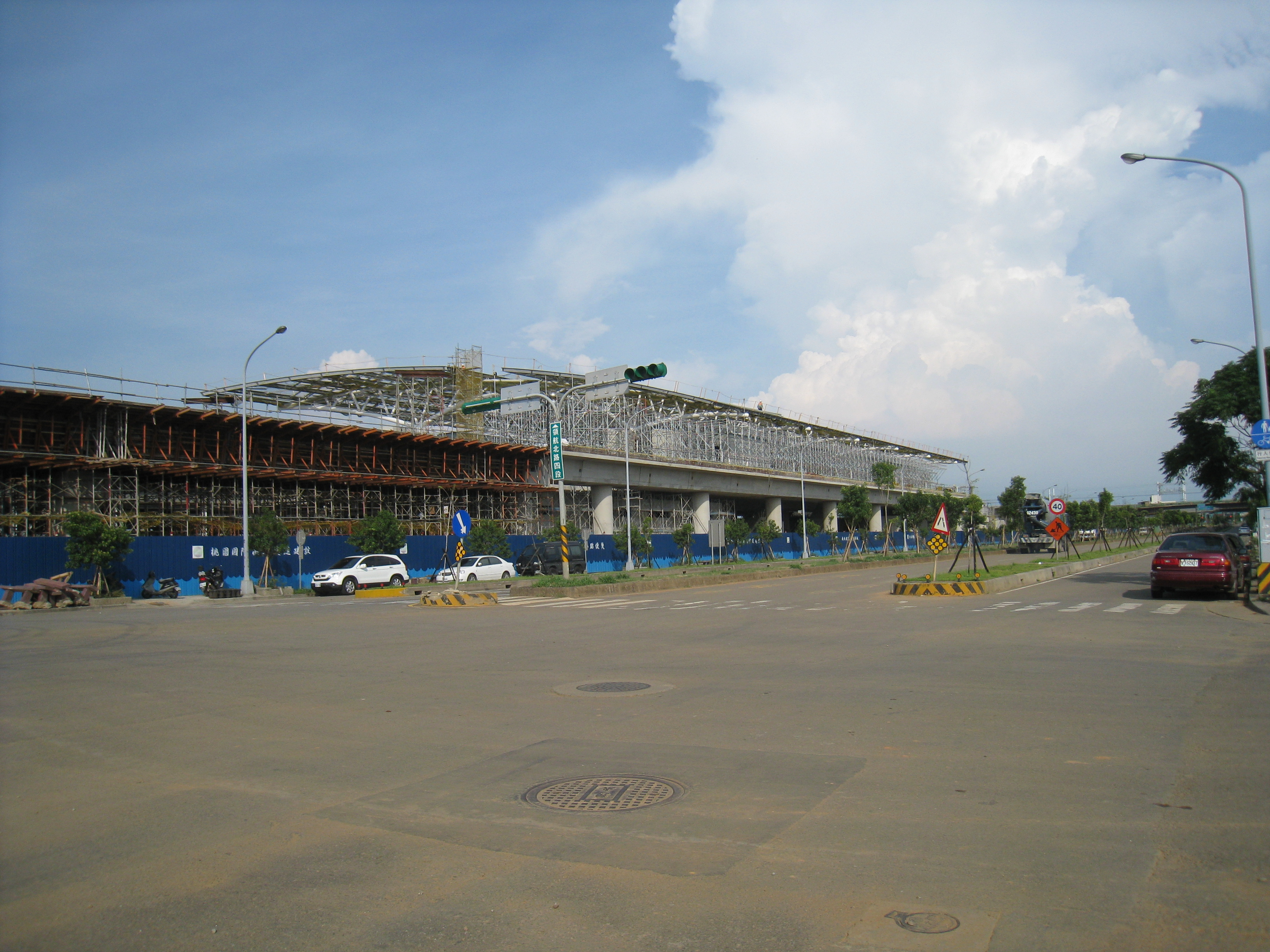 Taoyuan Airport MRT System - Linghang Station